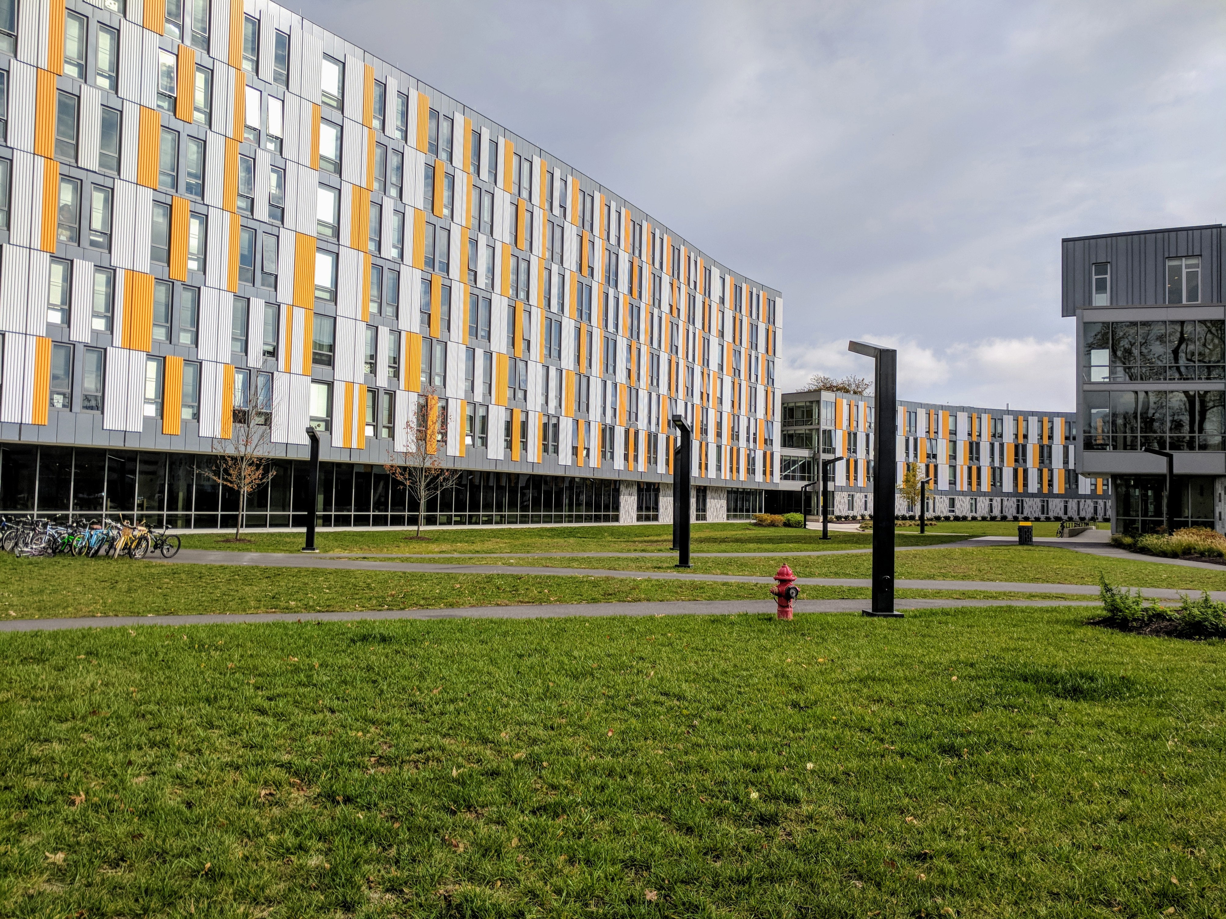 Photo of Rowan University's Holly Pointe Commons freshman dorm and cafeteria. Most of the complex is visible from this angle.